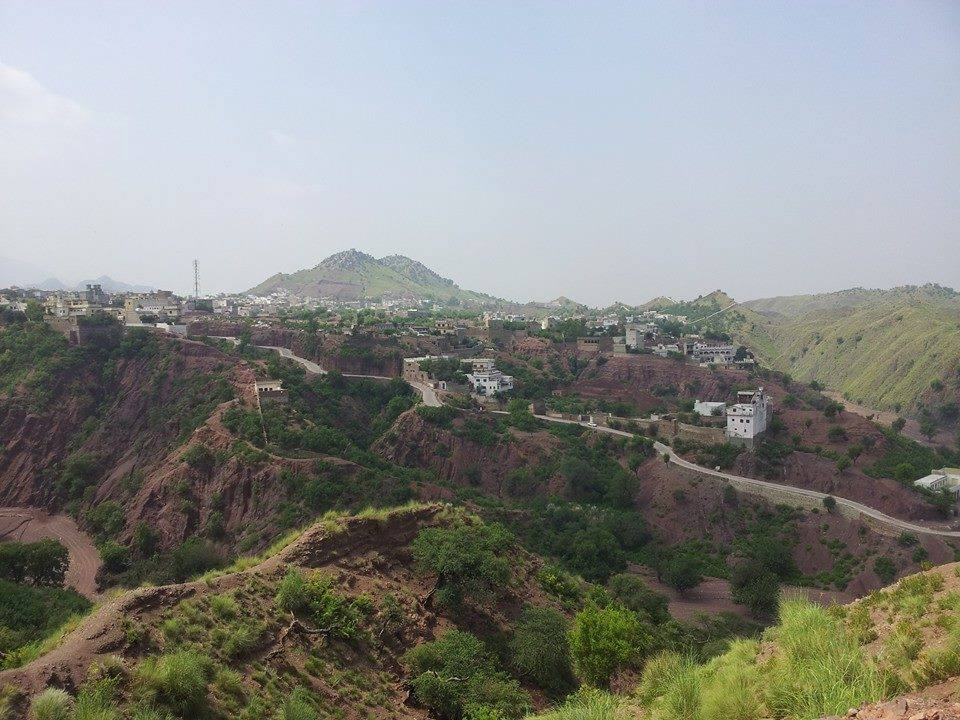 tallest mountain in saleh khana